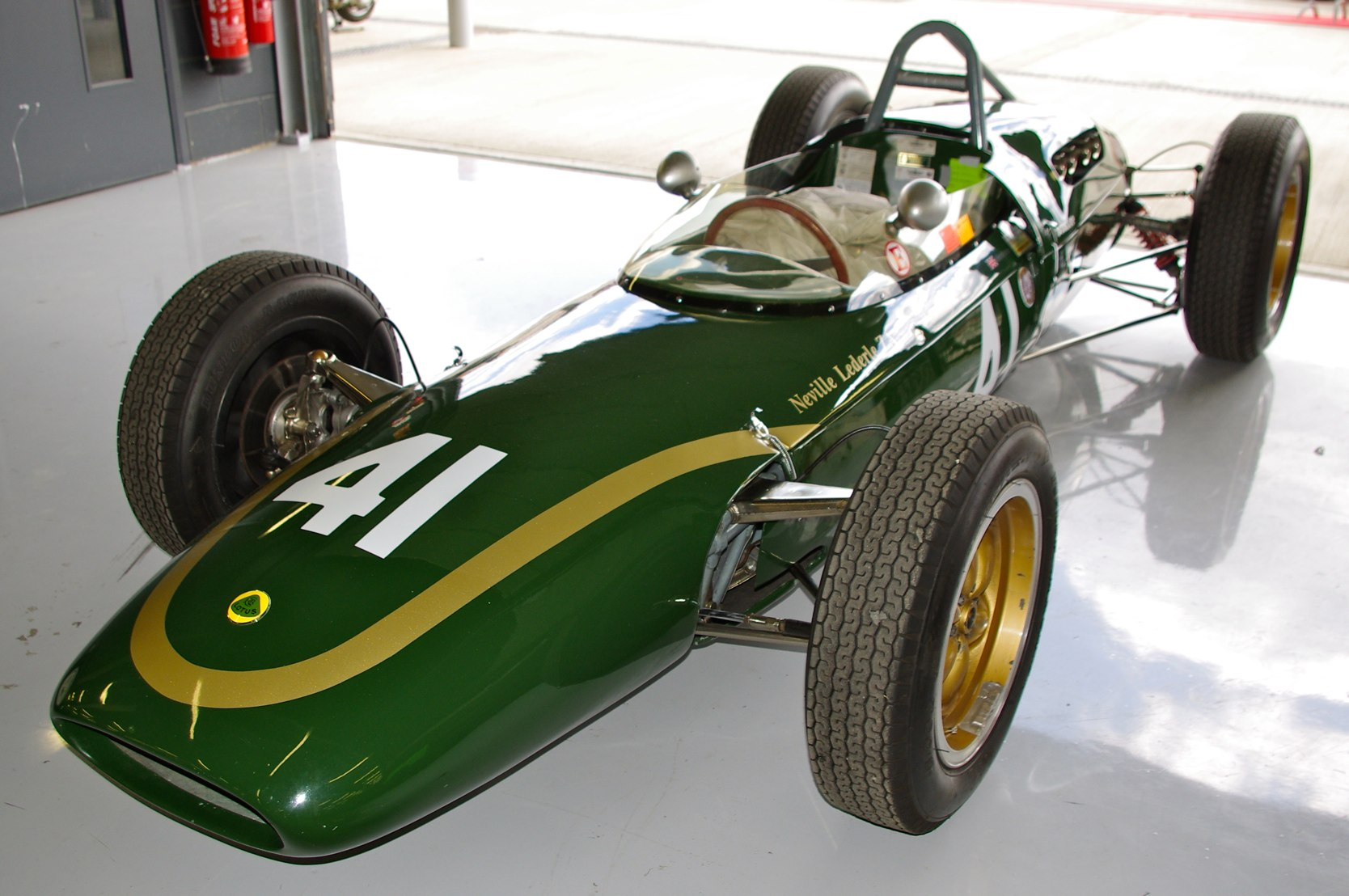 Silverstone Classic 2011